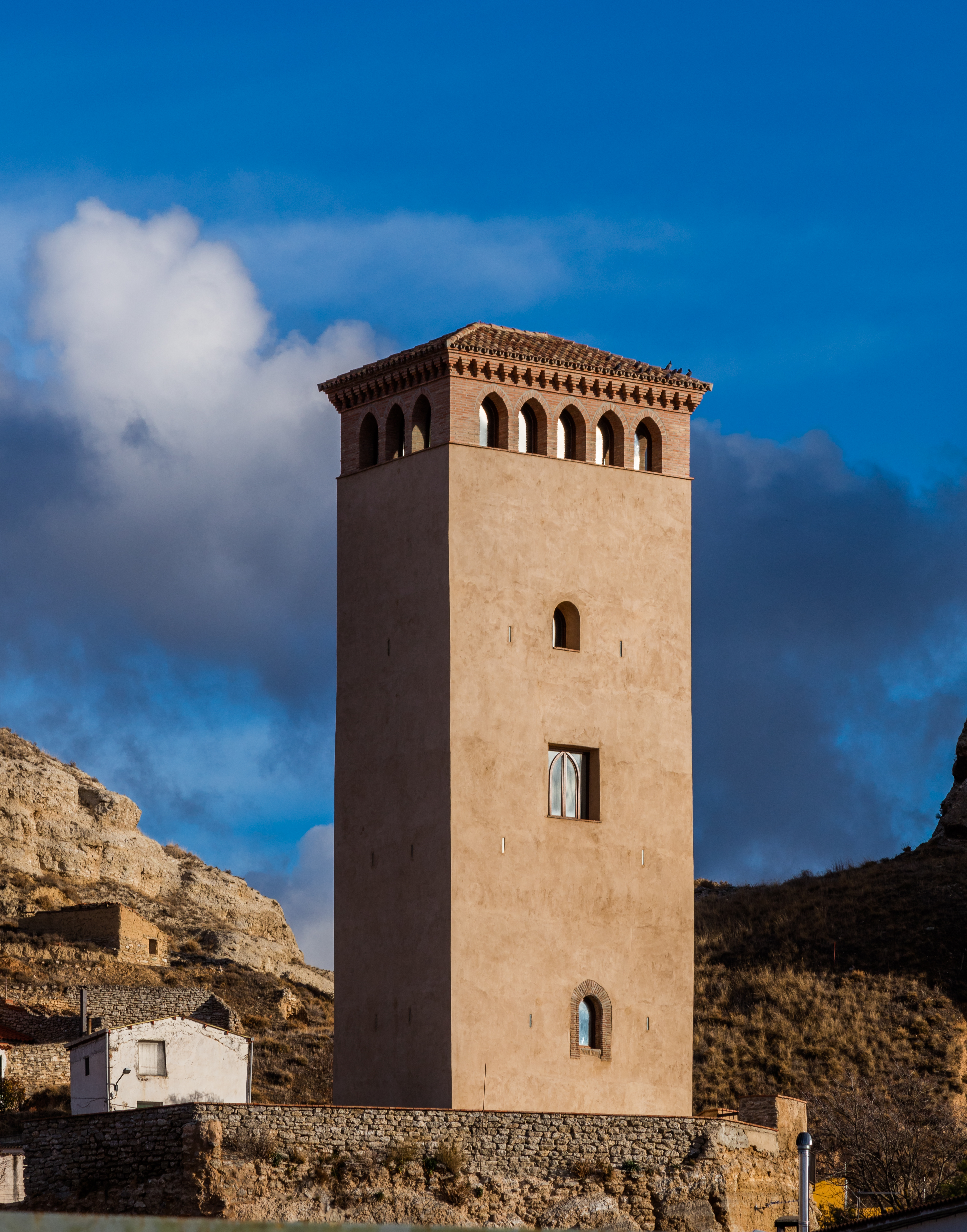 Albarrana Tower, Maluenda, Zaragoza, Spain